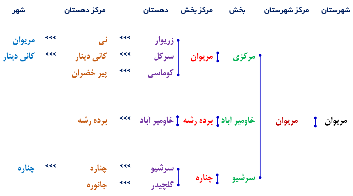 Table with the administrative divisions of the city of Marivan, Kurdistan, Iran